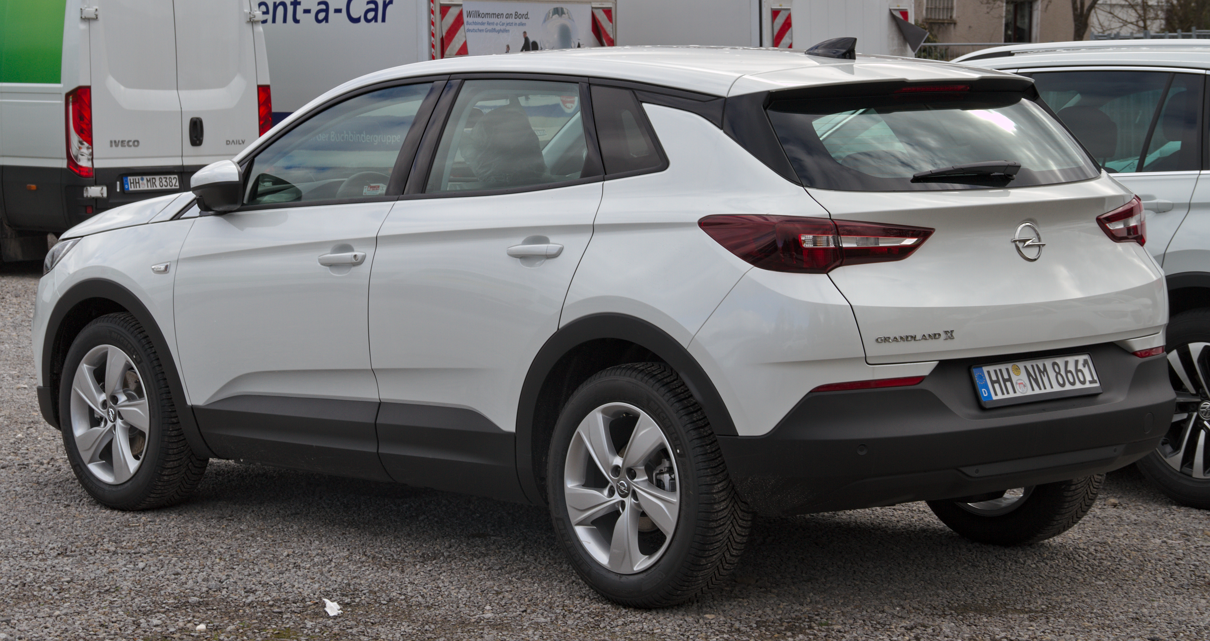 Opel_Grandland_X in Stuttgart-Vaihingen